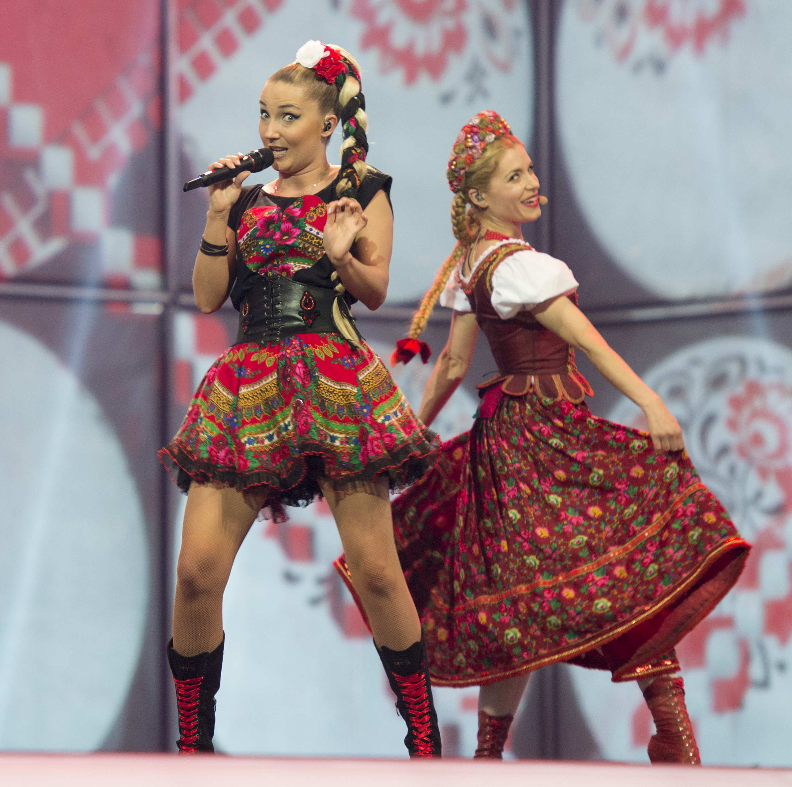 Donatan and Cleo representing Poland with the song "My Słowianie" during the first dress rehearsal of the second semi final of the Eurovision Song Contest 2014 Copenhagen. (Help translate this text)